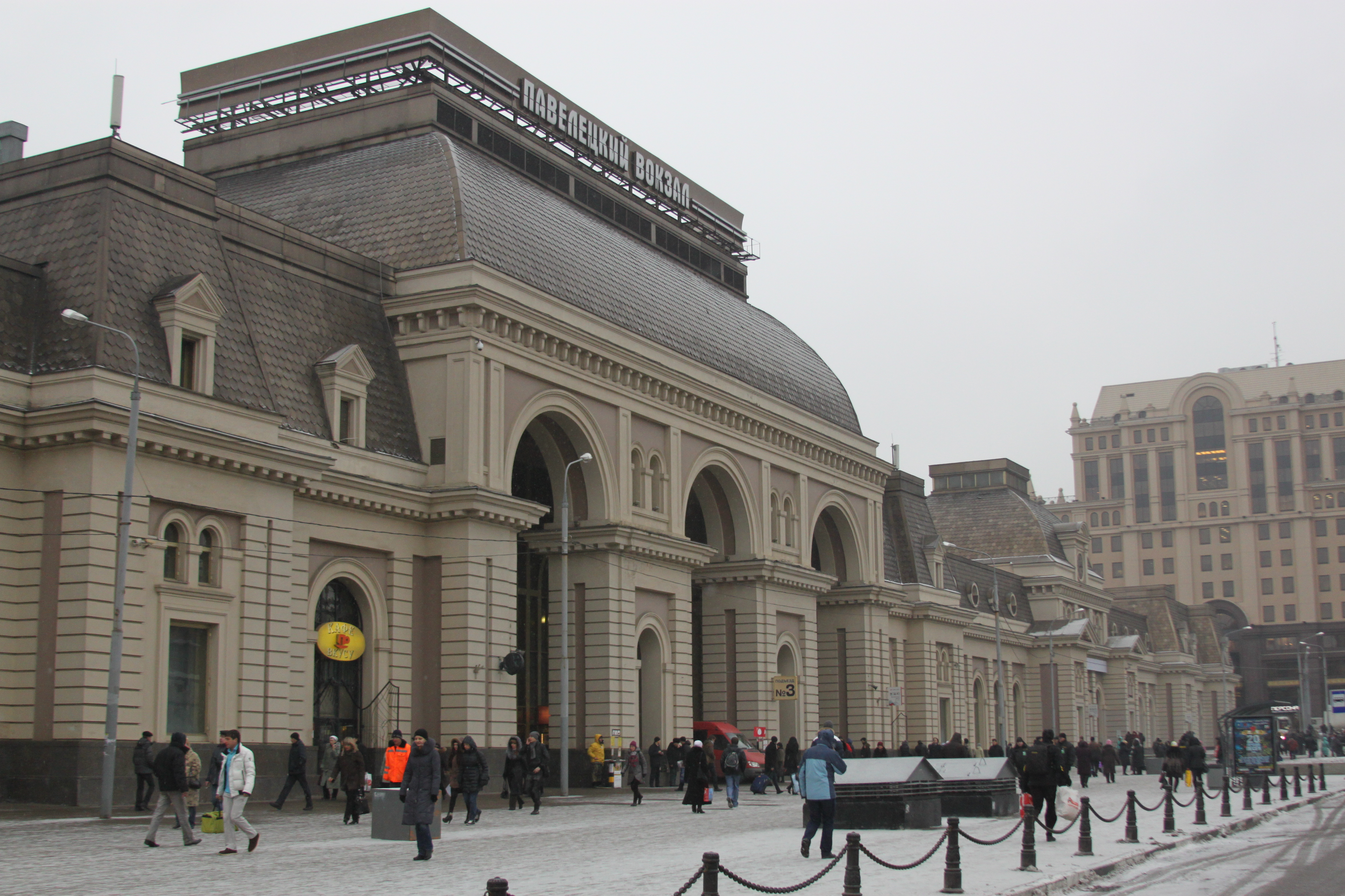 Russia, Moscow, Paveletsky Rail Terminal